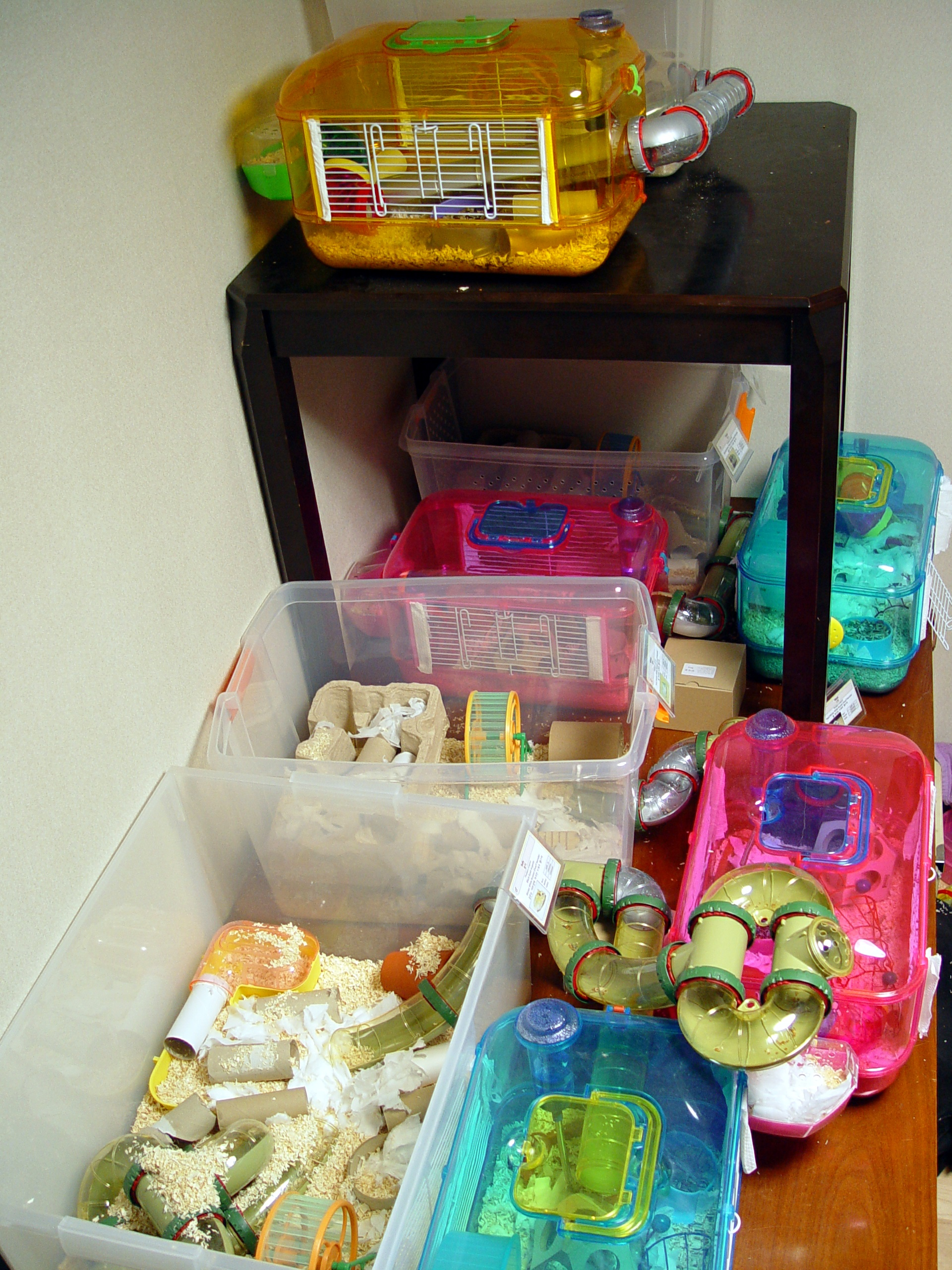 My hamster cages - not interconnected as some don't get along with others. Note the cardboard packing in the second white box from the front. This is particularly popular with hamsters, as they can chew holes through it and it becomes both a maze and shelter.